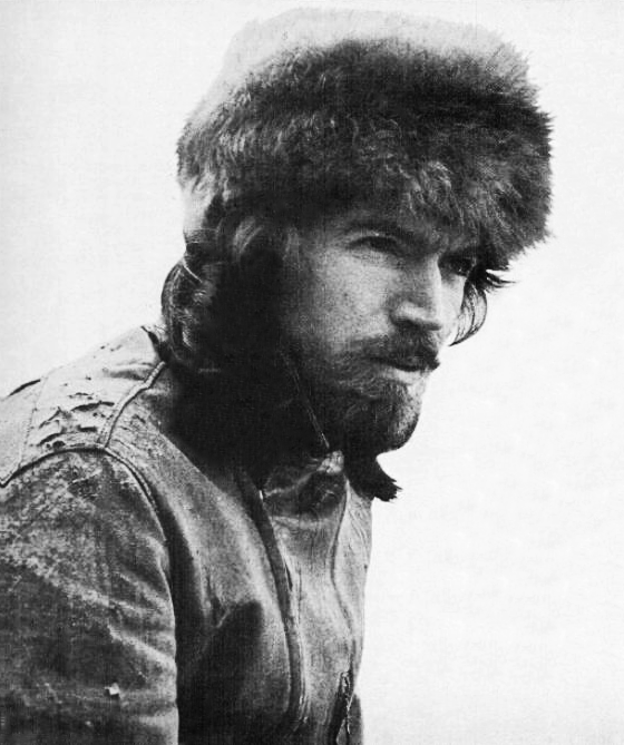 Trade ad for Danny O'Keefe's album O'Keefe. To better adapt it to his respective Wikipedia article, the ad was cropped and cleaned in a graphics editing program. The original can be viewed at the source below.